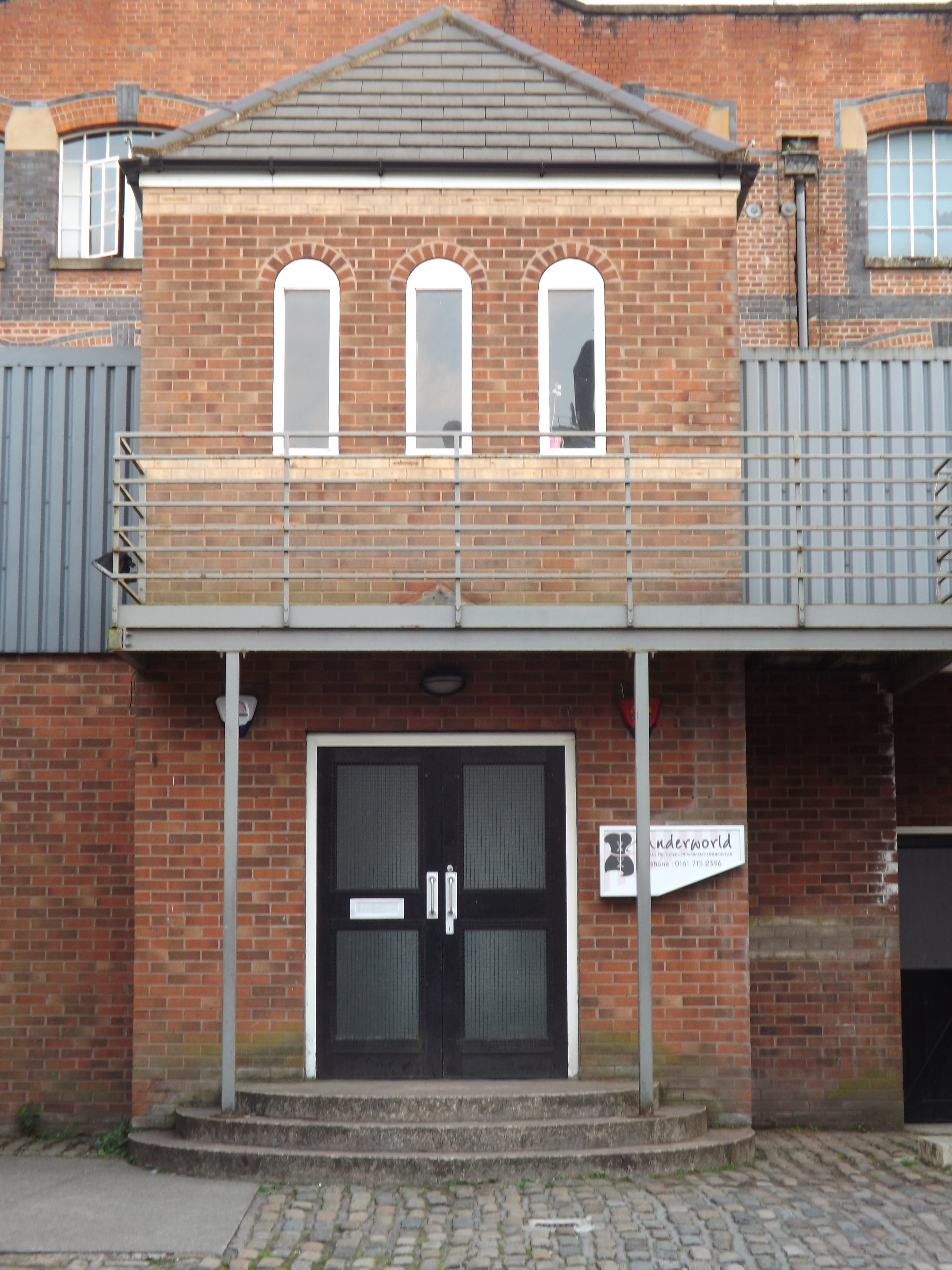 Photo of Underworld taken at Coronation Street: The Tour at the former Granada Studios at Quay Street, Manchester.